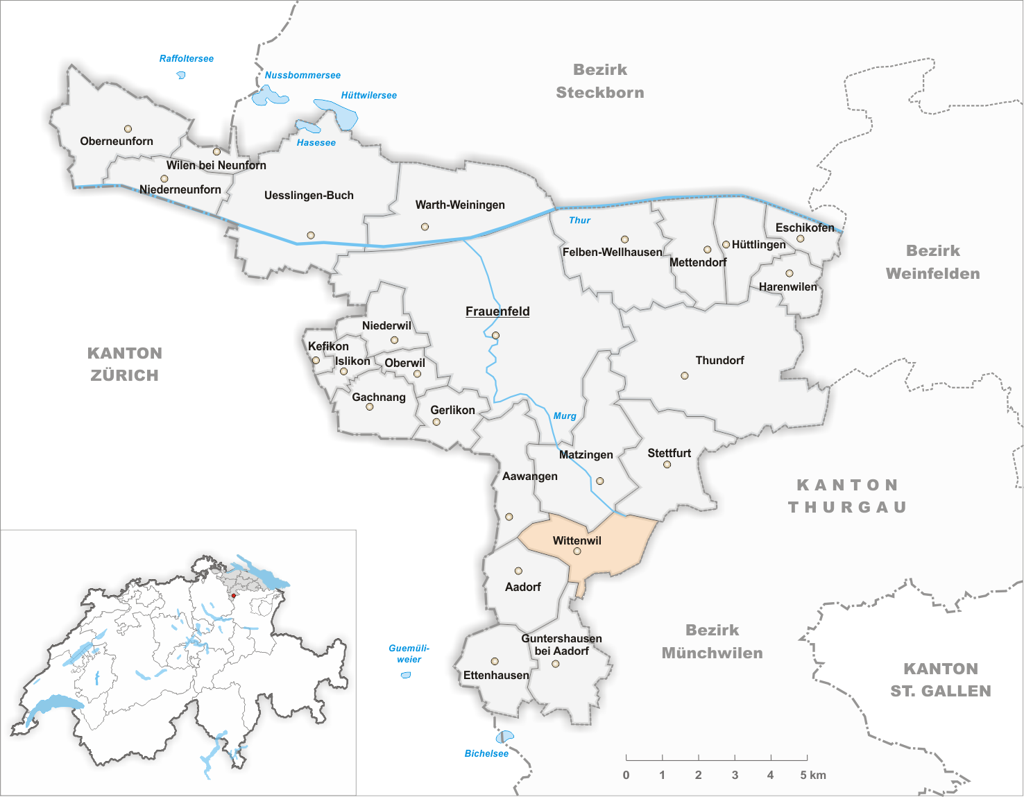 Municipality Wittenwil